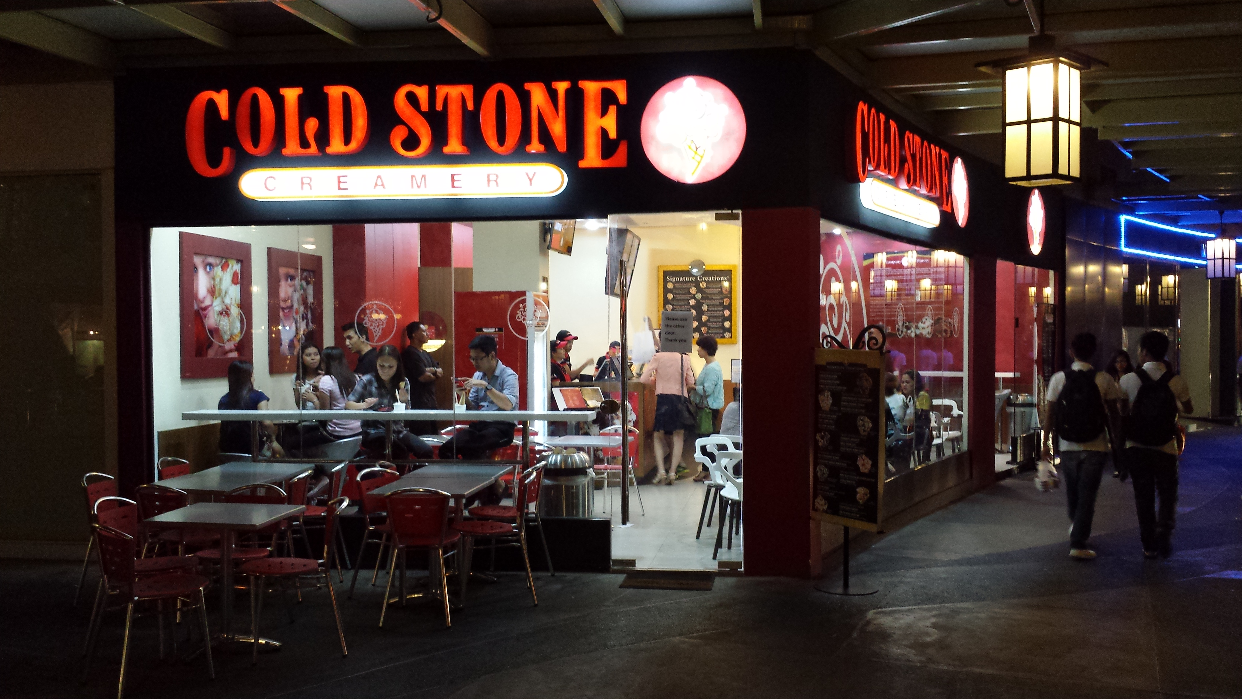 A Cold Stone Creamery café at Serendra Plaza in Bonifacio Global City, Metro Manila, Philippines.